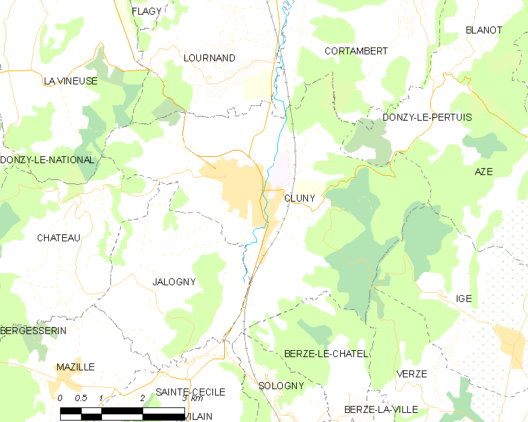 Map of French municipality